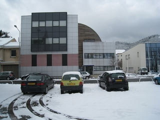 Image of the InSIC, Engineer School.